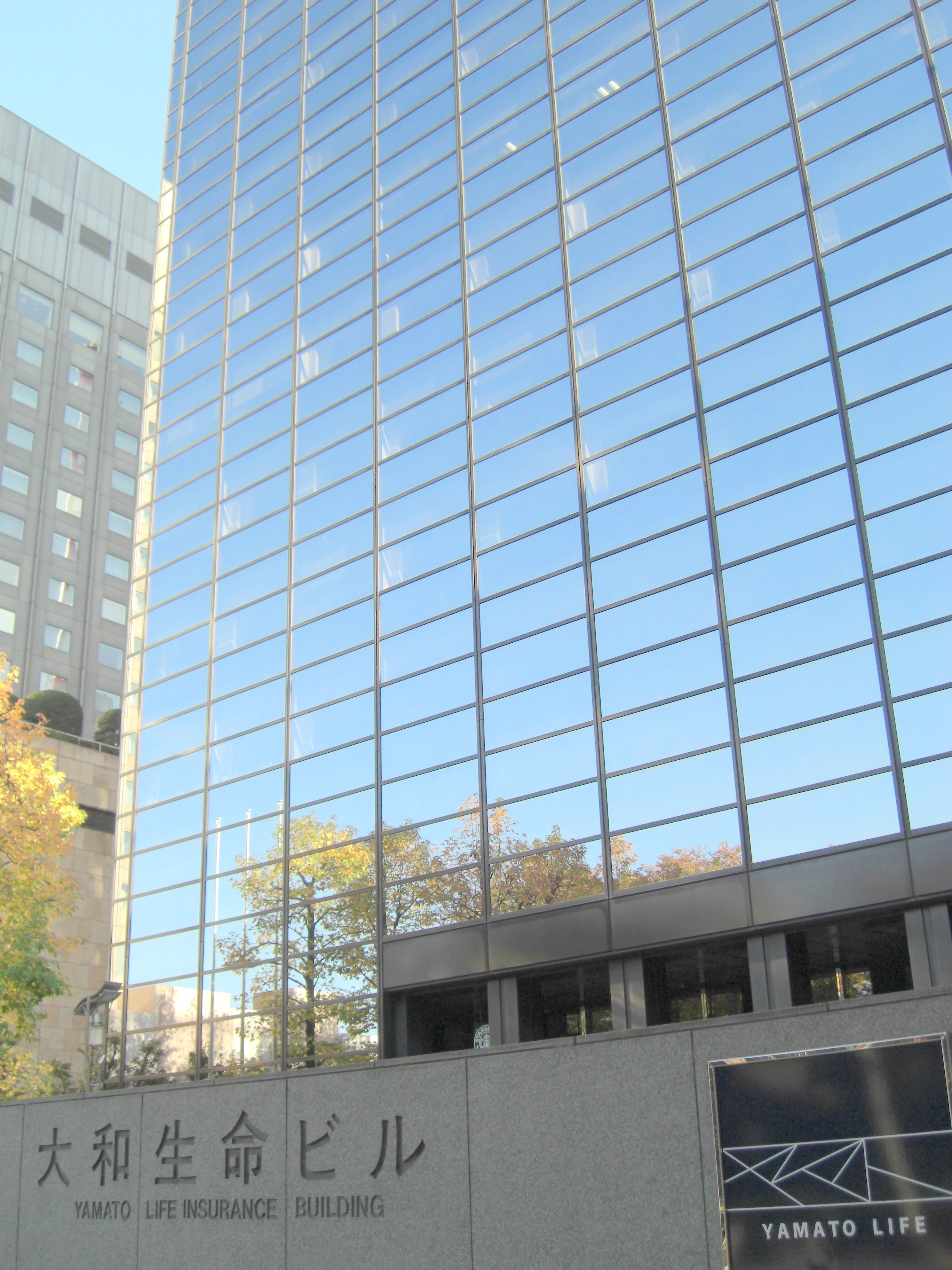 YAMATO LIFE INSURANCE BUILDING (1-7, Uchisaiwai-cho 1-chome, Chiyoda-ku, Tokyo, Japan)